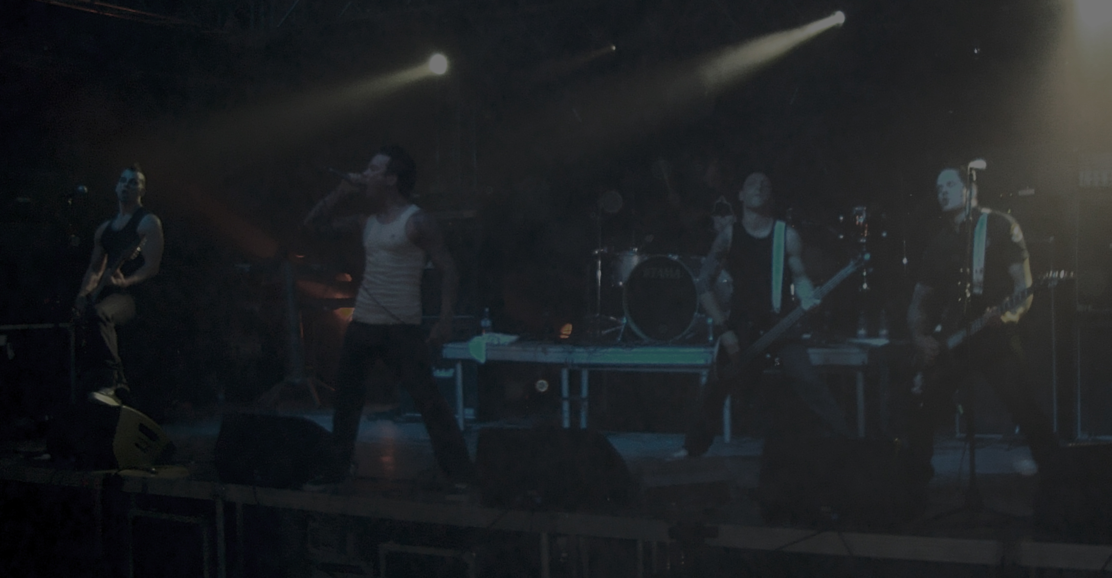 Dead by April on Rockweekend on tour, Gärdeshov, Sundsvall, Sweden